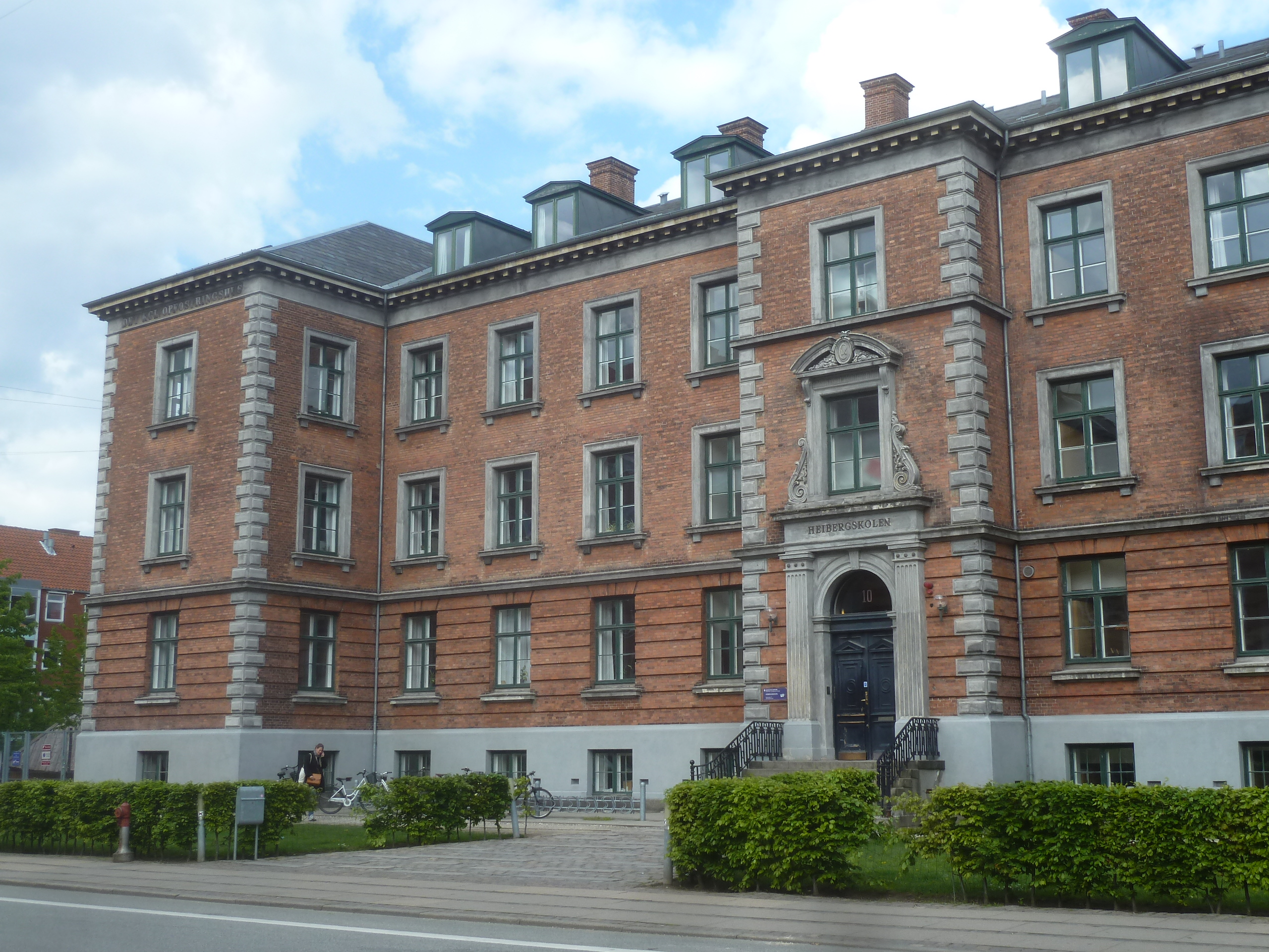 Heibergskolen's Building on Randersgade in the Østerbro district of Copenhagen, Denmark